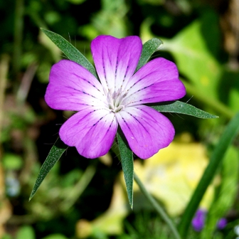 corn cockle